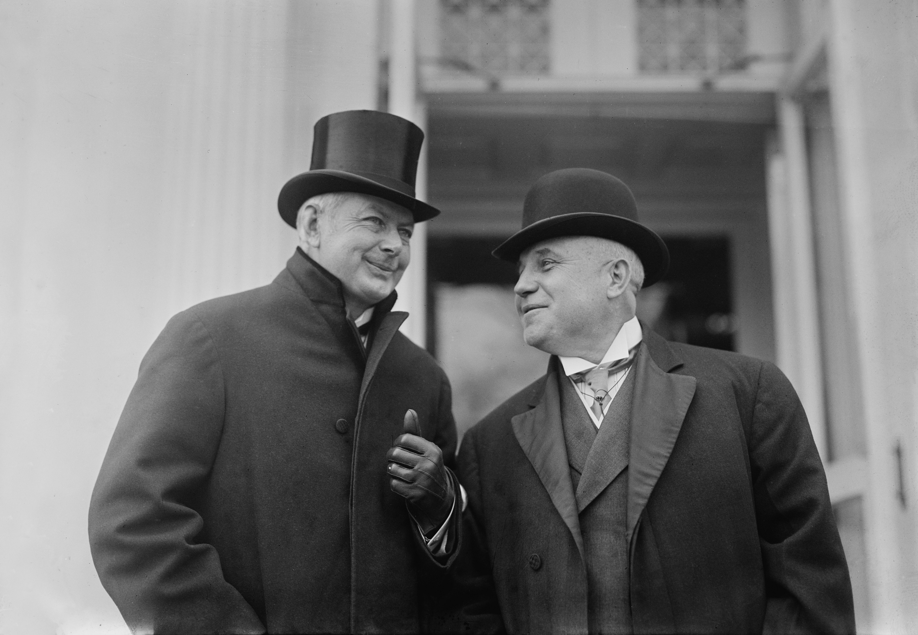 Two Wilson Cabinet officials: Postmaster General Albert S. Burleson (left) and Interior Secretary Franklin K. Lane